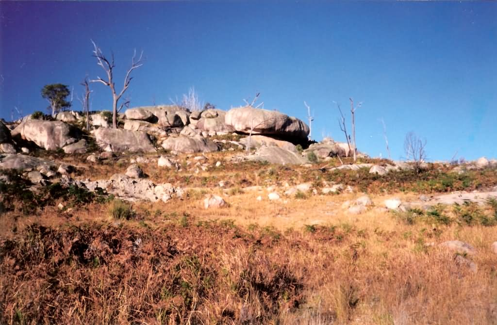 This photo was taken on the 12 June 1995 on the tourist drive south west of Tenterfield.